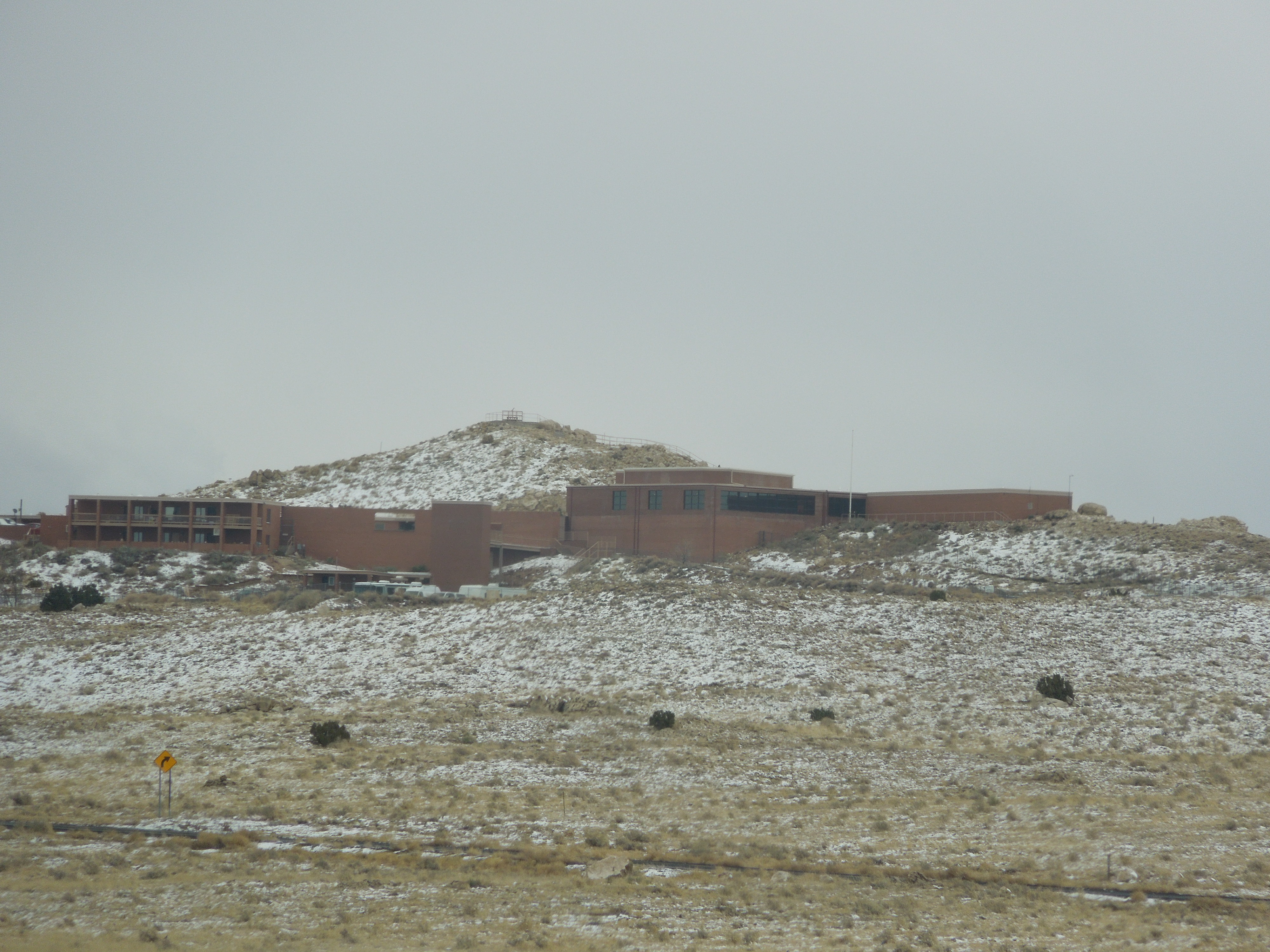 Barringer Crater (Meteor Crater) in Arizona.